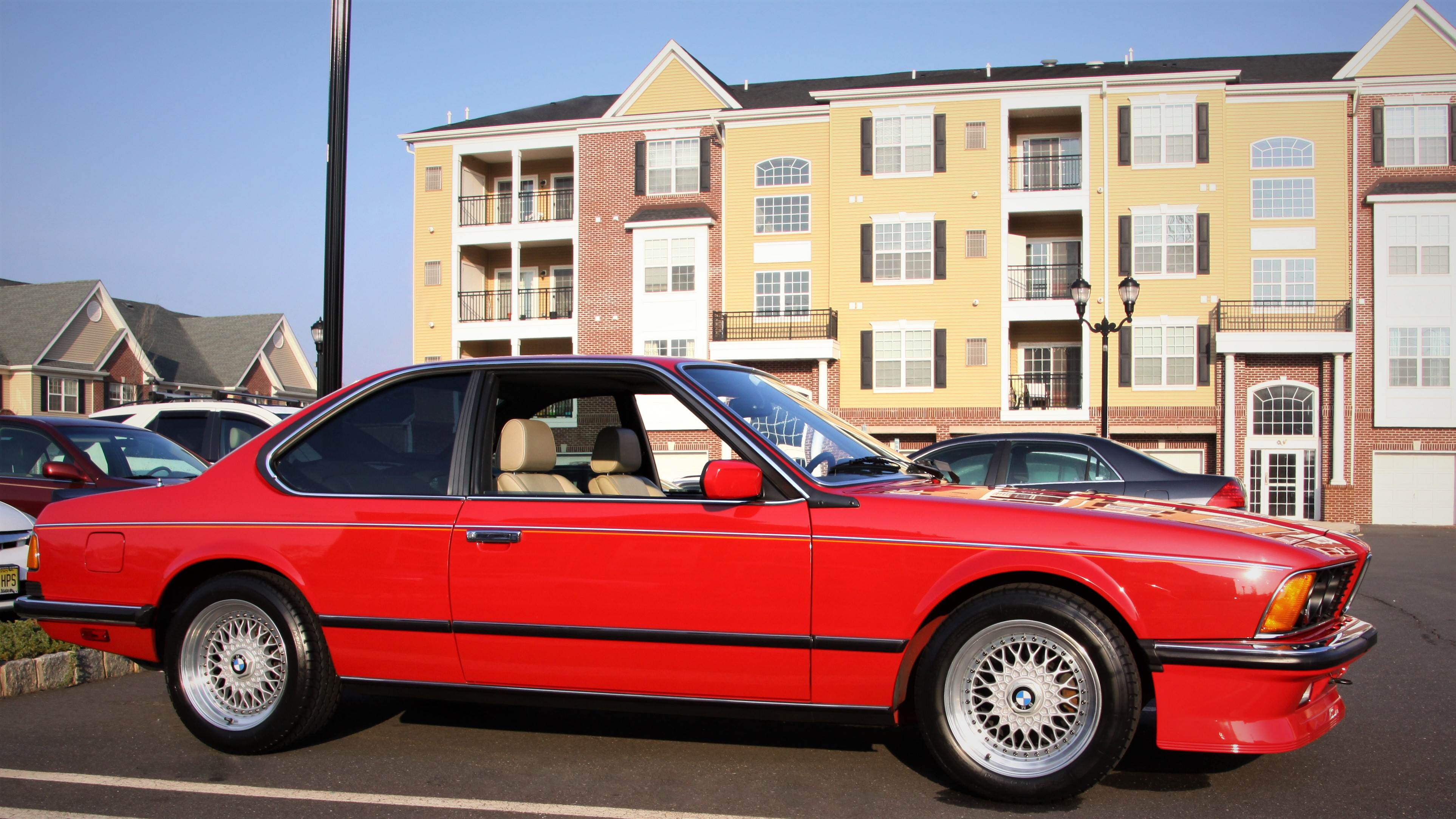 1985 BMW M635CSi. Original BBS RS007 210 TR 415 wheels on Michelin TRX 240/45VR415 tires.